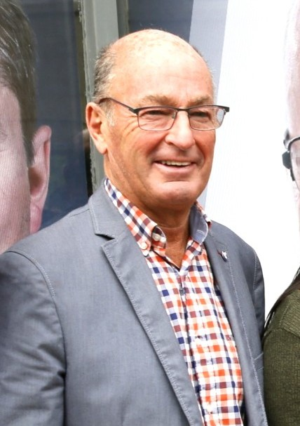 Starting Pierre-André Émond’s campaign off on the right note in Sorel-Tracy this morning by announcing my plan to support rural communities. Justin Trudeau's government has ignored these areas. With our plan, we’ll put them back at the center of our decision making process.